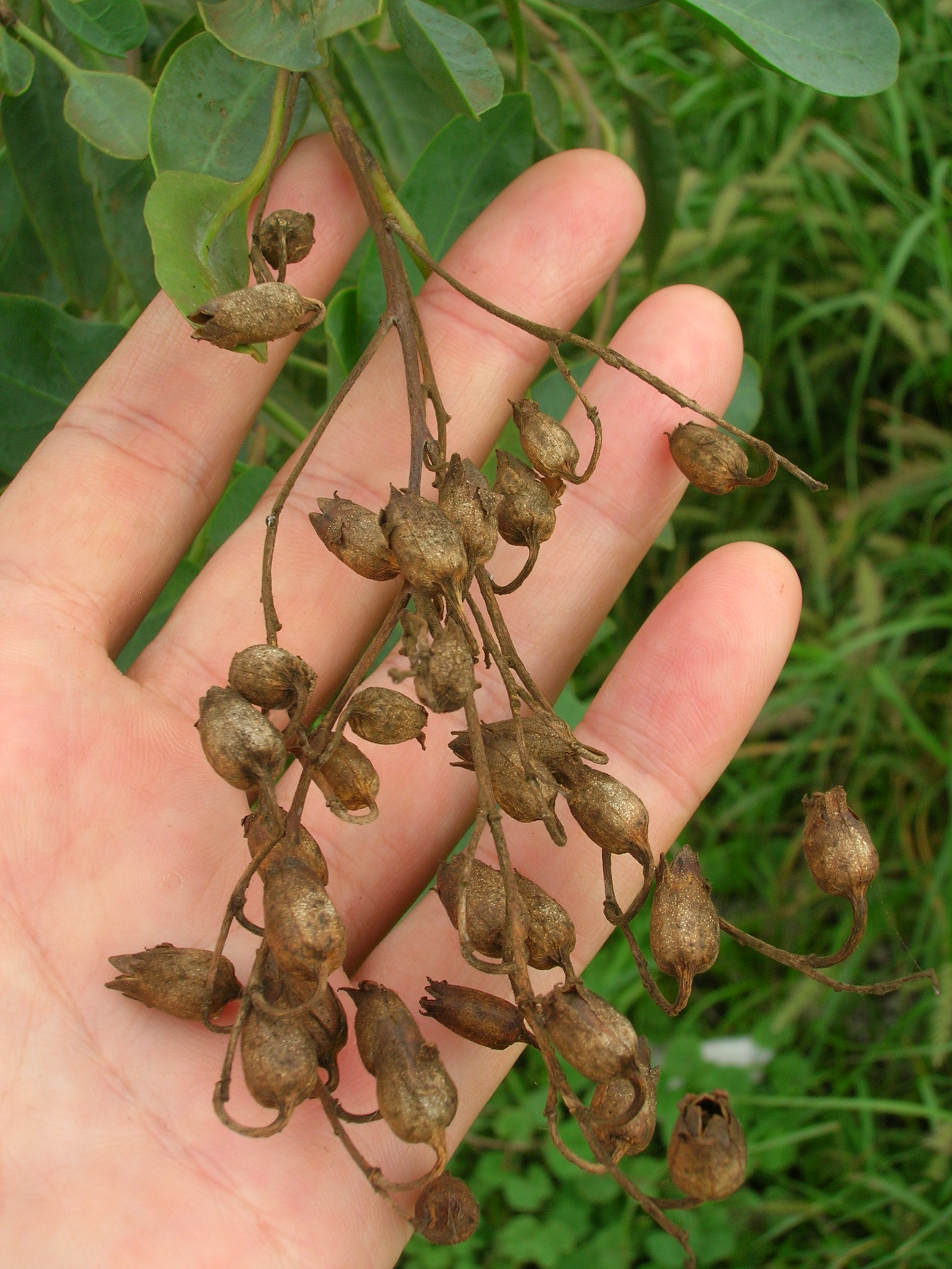 Nicotiana glauca (seedpods). Location: Maui, Kahului Airport